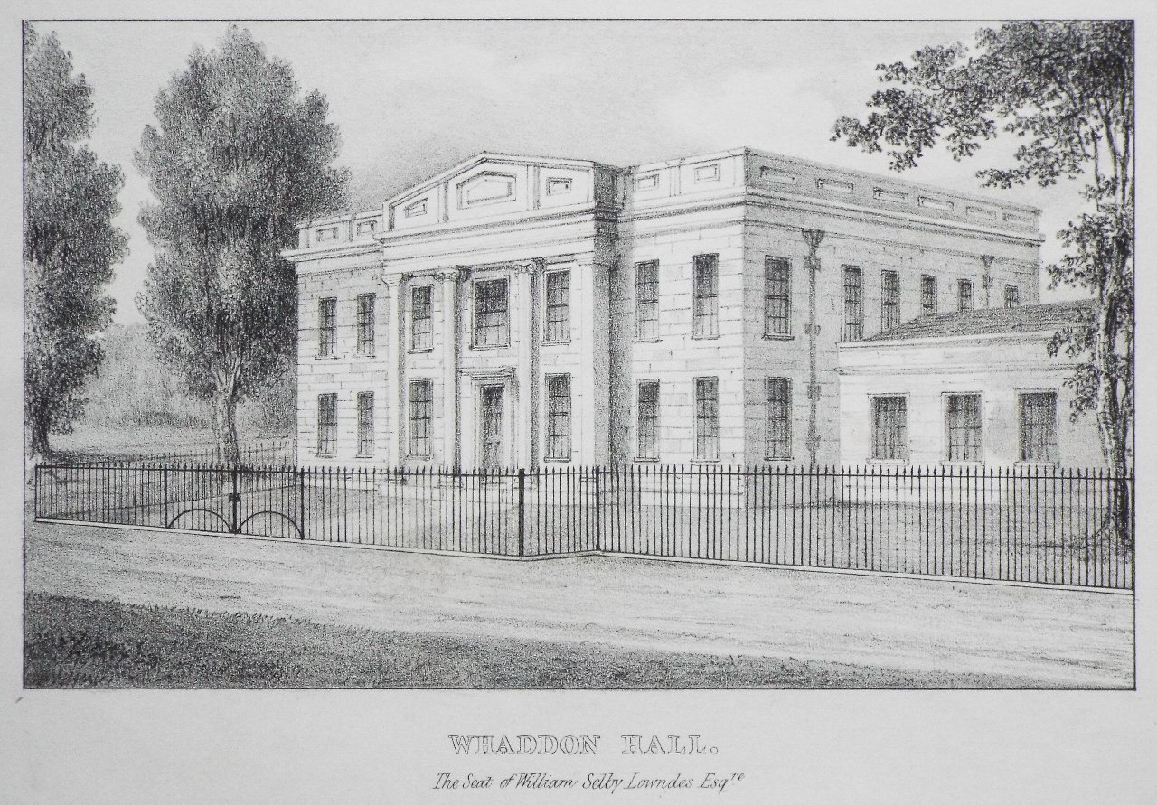 Old print of Whaddon Hall